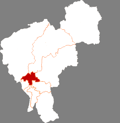 Location of Kuancheng district in Changchun City, China